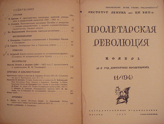 Proletarian Revolution magazine